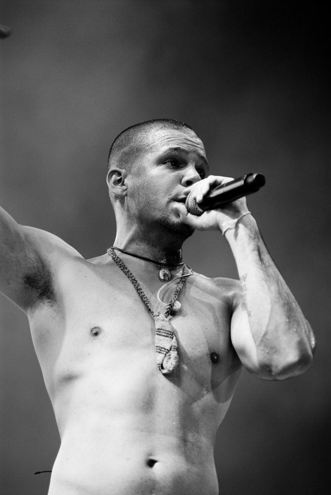 Residente of Calle 13 performing on August 29, 2009 at the Festival Afrocaribeño.